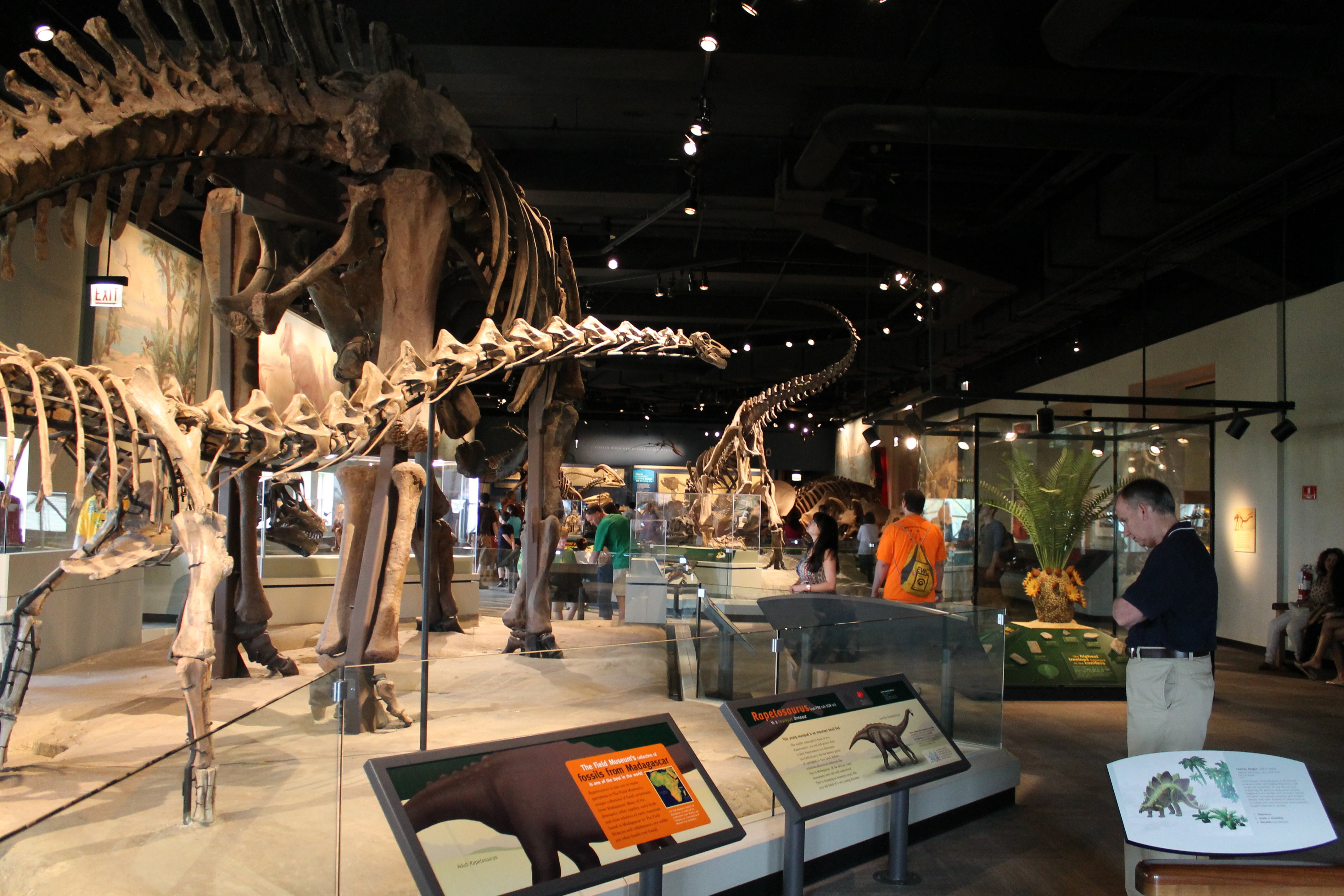 Juvenile Rapetosaurus behind Apatosaurus at the Field Museum. Steve's parents visited us for a weekend, and we had the pleasure of introducing our favorite jaunts in Chicago: evening music concerts in Millenium Park, Field Museum, Nana's, the dog park with Stella, Chinatown, and even took in a drink at the Palmer House Hilton.